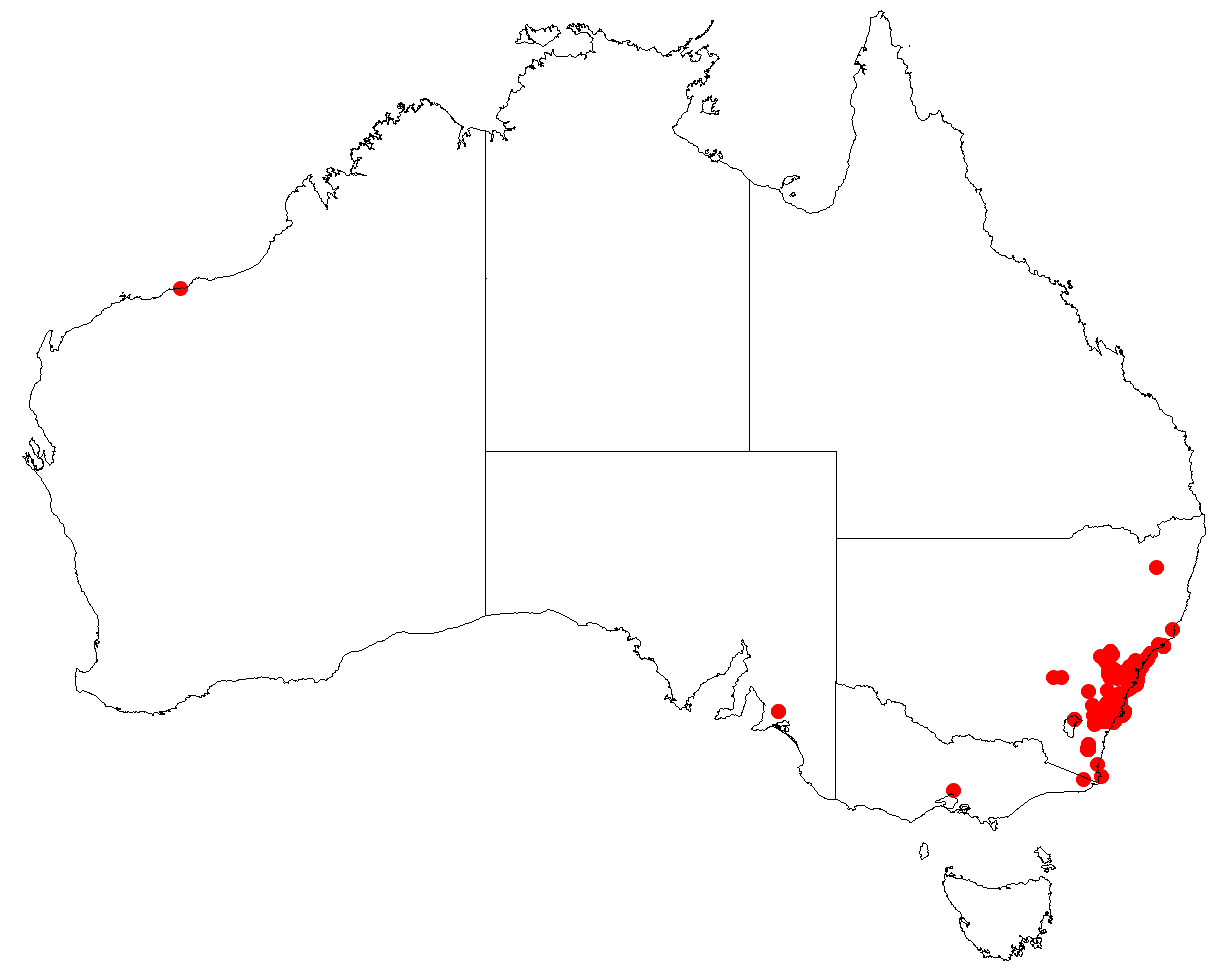 Allocasuarina distyla occurrence data from Australasian Virtual Herbarium download 4 July 2018